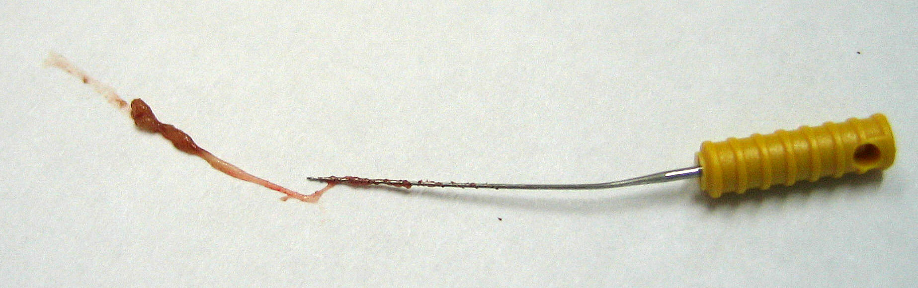 Pulp tissue removed during endodontic therapy by a size 20 broach file (endofile)